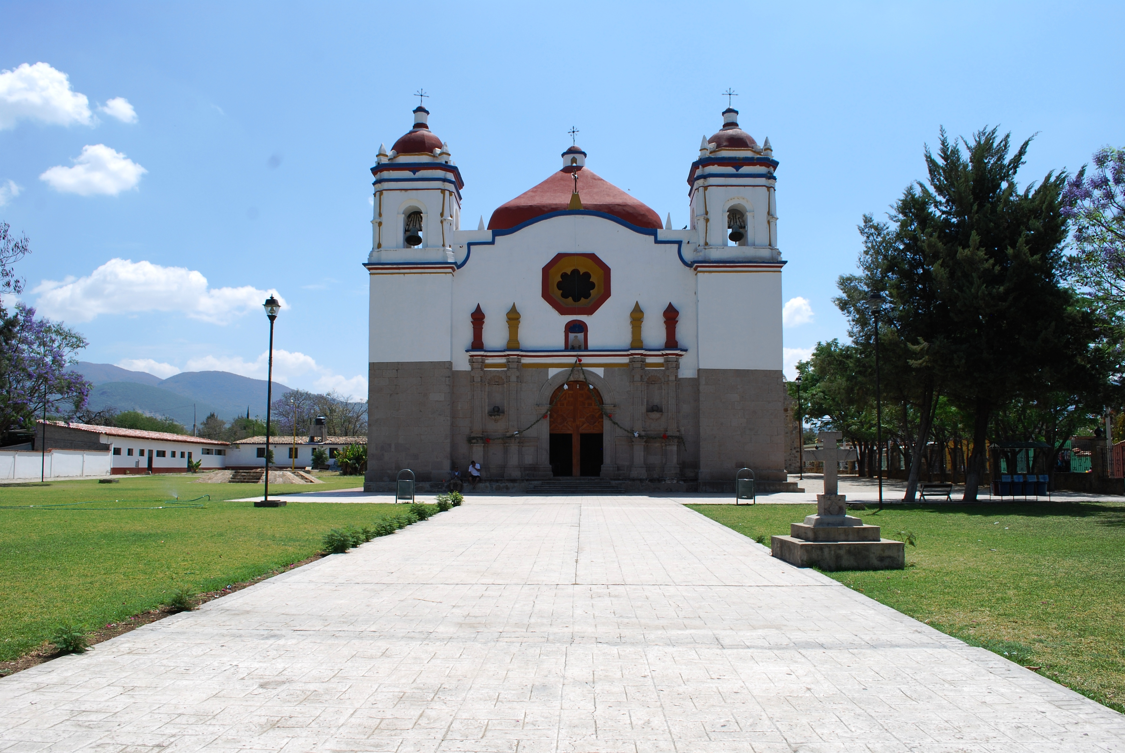 Parish of San Bartolo in San Bartolo Coyotepec, Oaxaca, Mexico